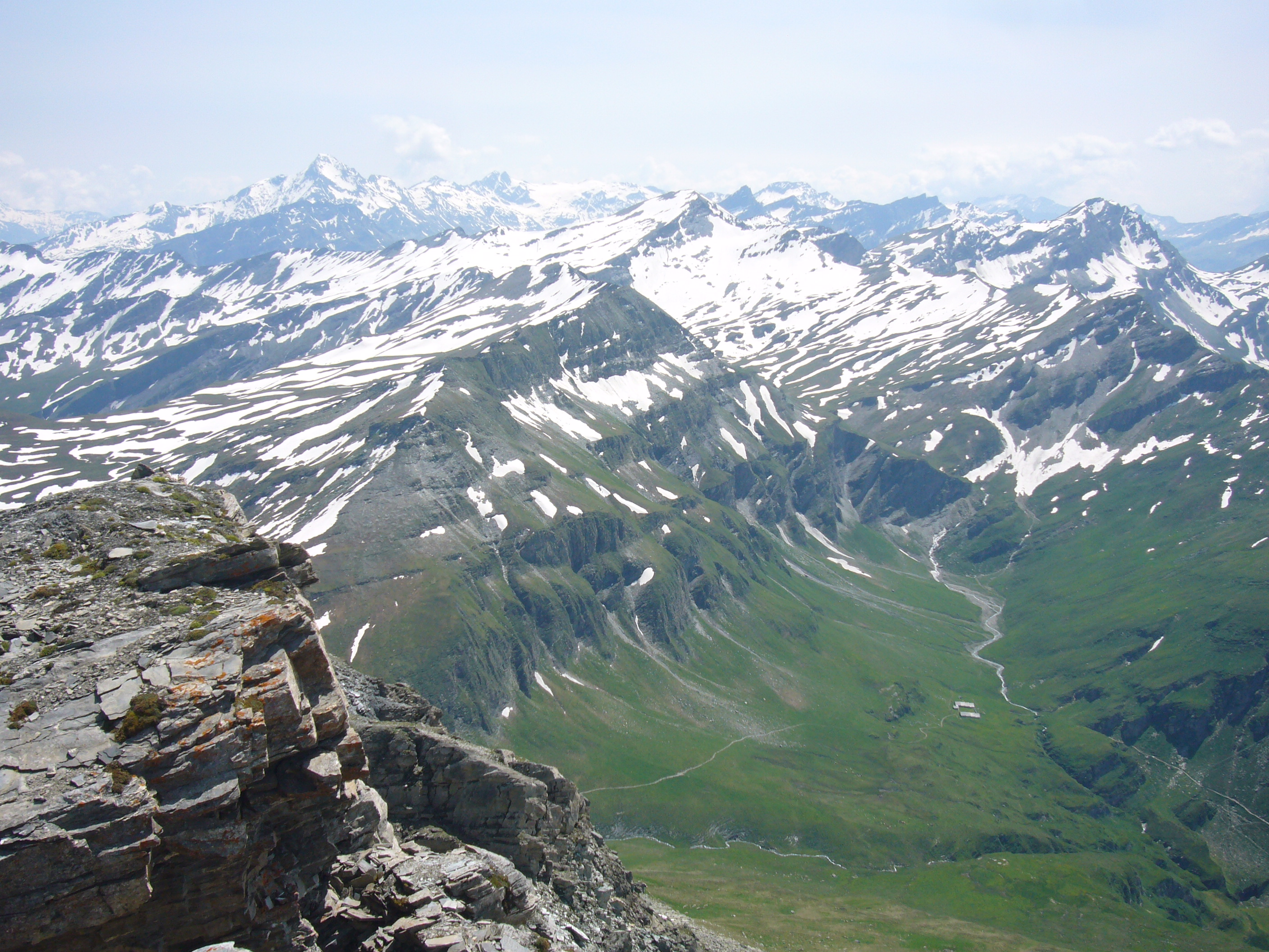 From the peak of Piz Tomül you can see Alp Tomül in the valley. The highest point in the horizon is Pizzo Tambo.